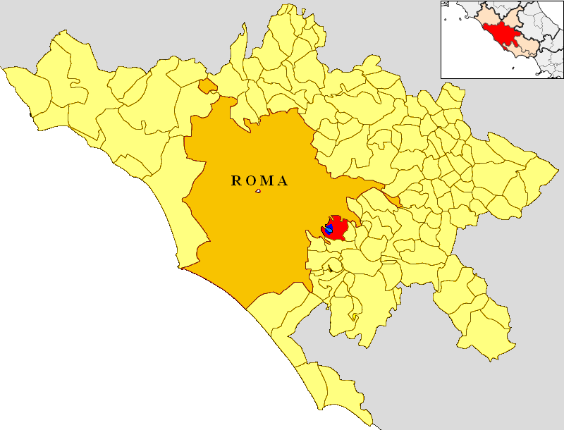 Locator map of Vermicino (the blue spot) within the municipality of Frascati (shown in red) and the Province of Rome. The part of Vermicino belonging to the municipality of Rome (in orange) is shown in light blue.